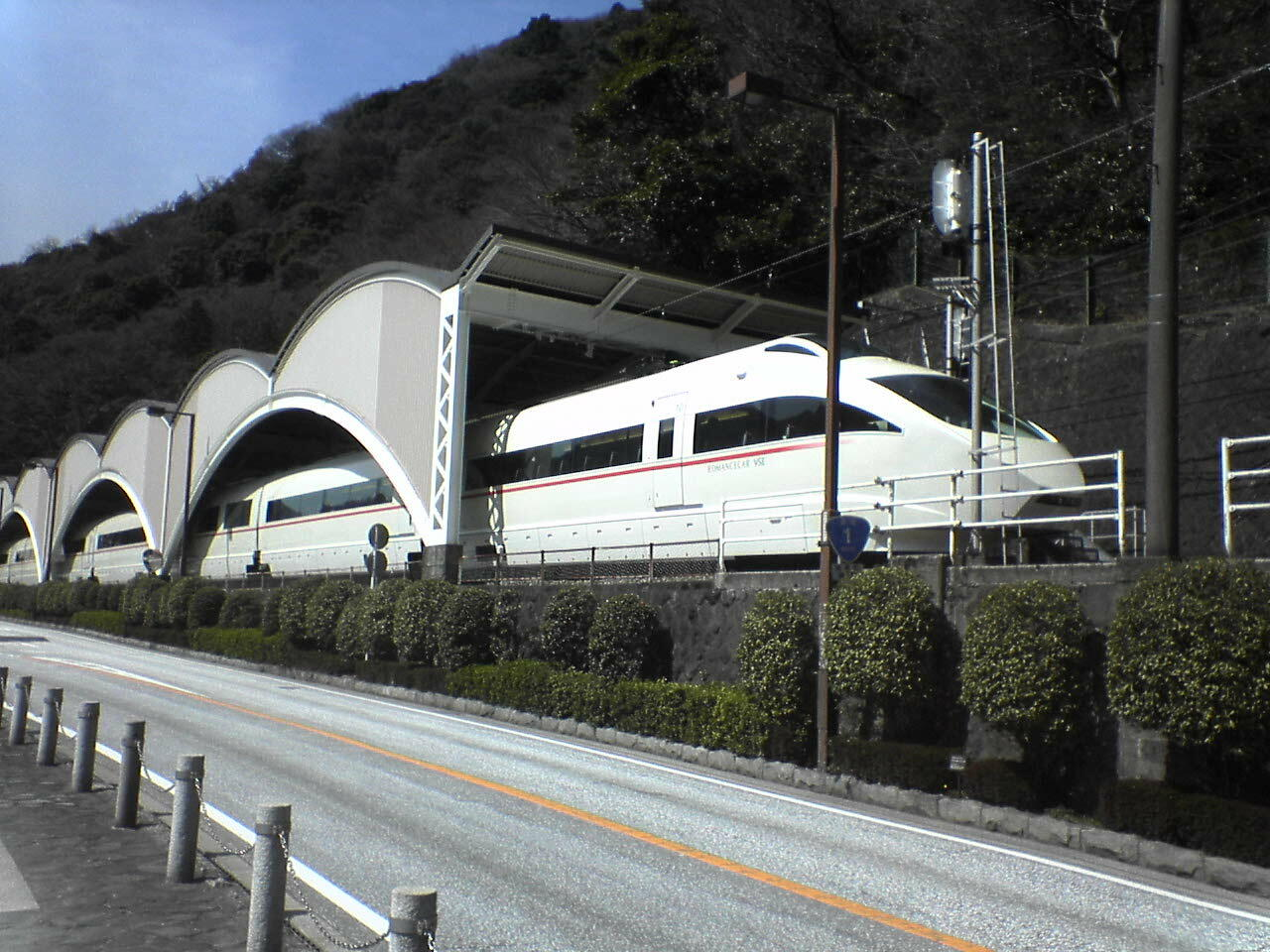 Odakyu Romance Car Series VSE (Model 50000) at Hakone Yumoto Station,Hakone Tozan Railway Hakone-Tozan Line,Odakyu Electric Railway,Kanagawa,Japan.